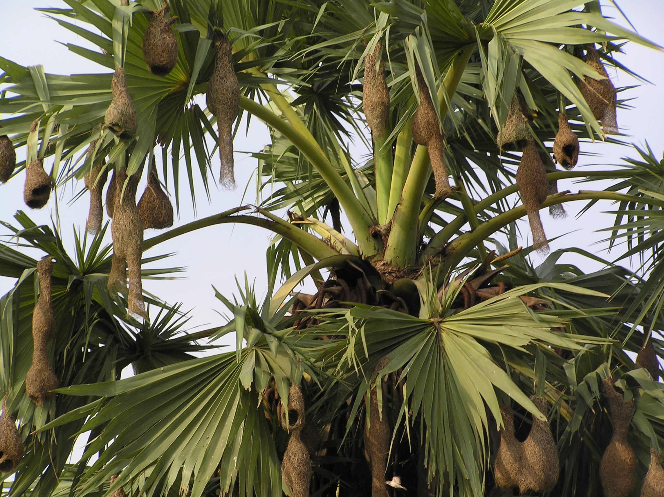 Beauty of nature in green Bangla Nests of Weaver birds hanging from a palm tree.